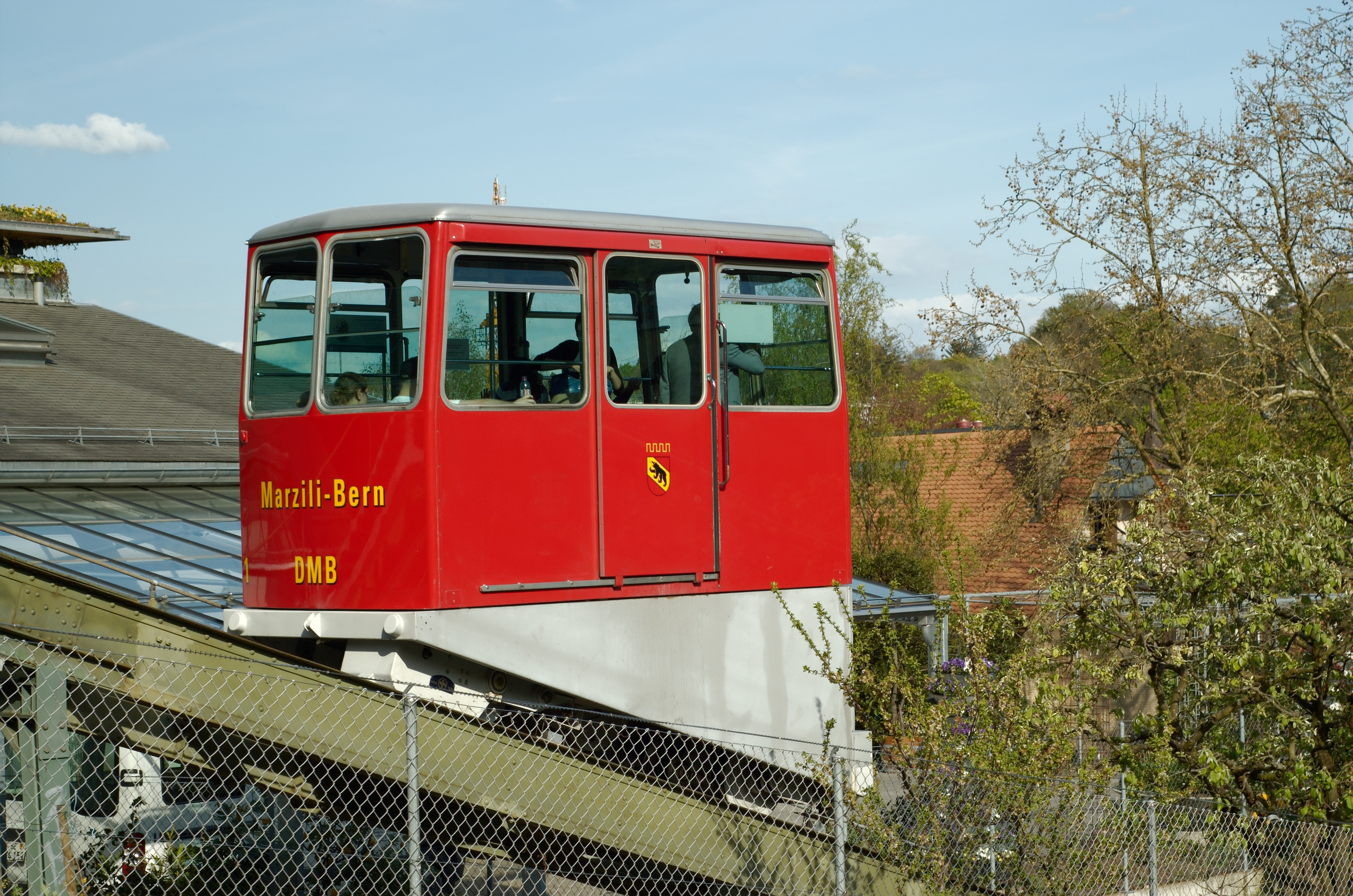 Marzili funicular in Berne, Switzerland